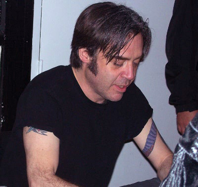 Brad Roberts following a Crash Test Dummies show, October 2010